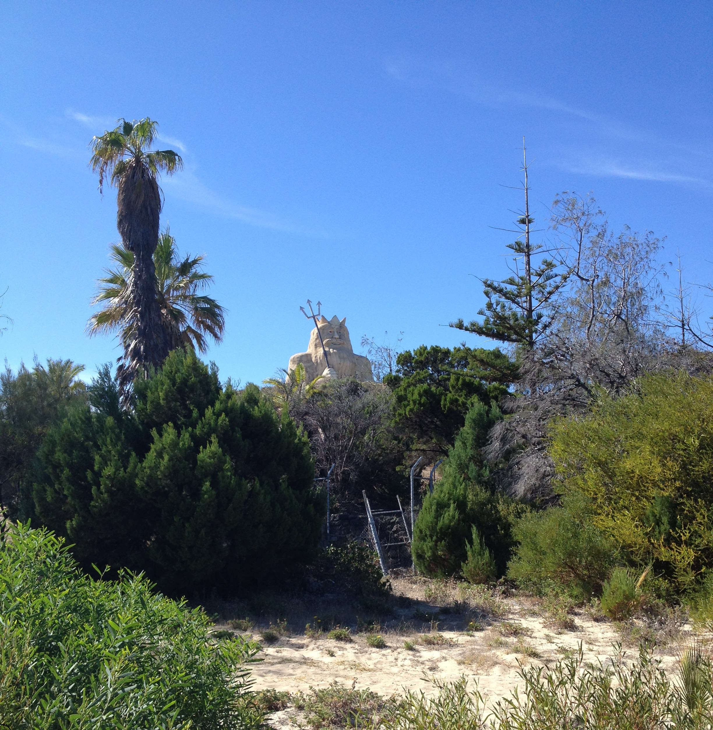 King Neptune at Atlantis Marine Park